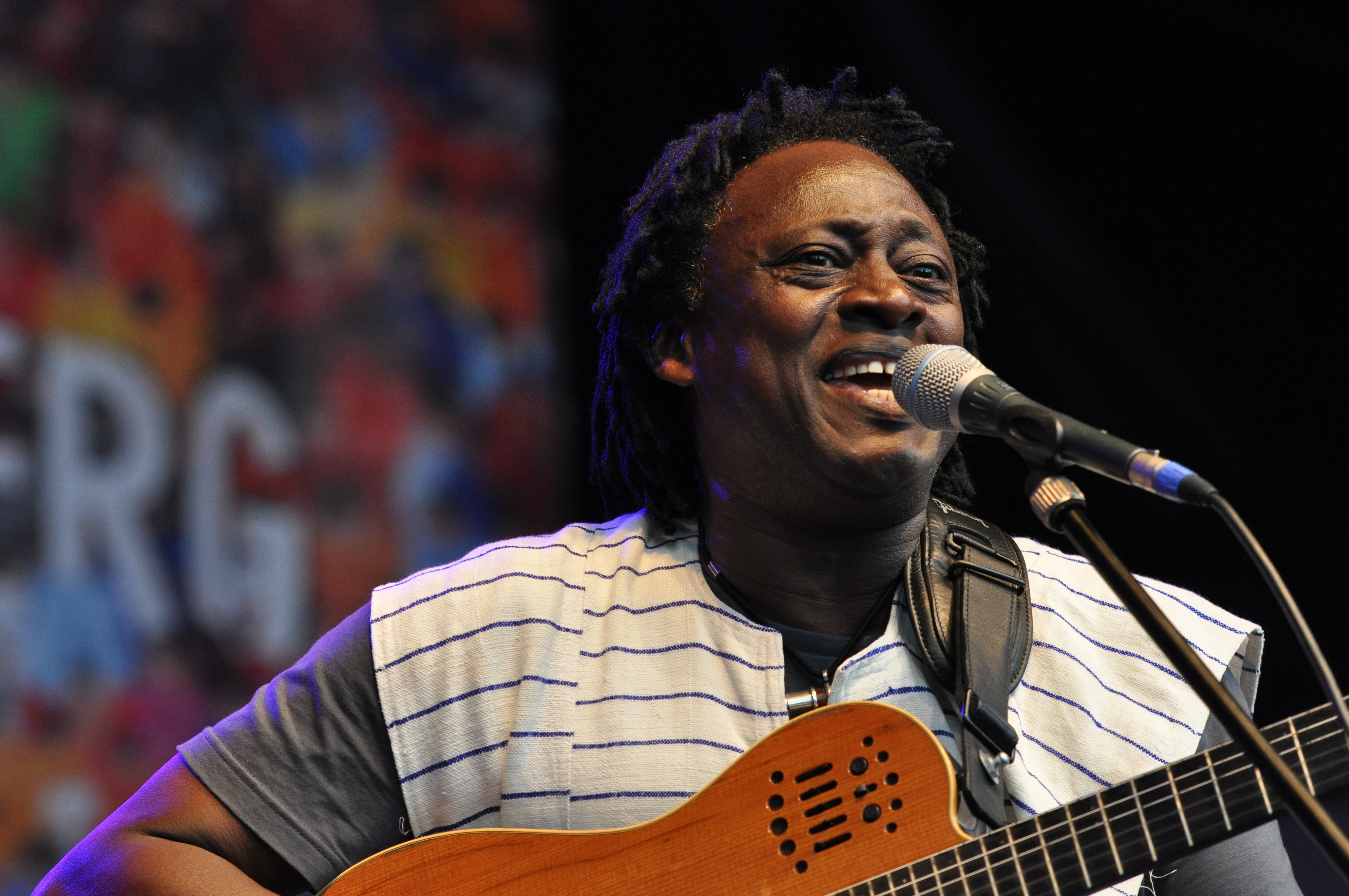 Habib Koité (Mali), appearance at the 39th music festival "Bardentreffen" 2014 in Nuremberg, Germany, Schuett island stage